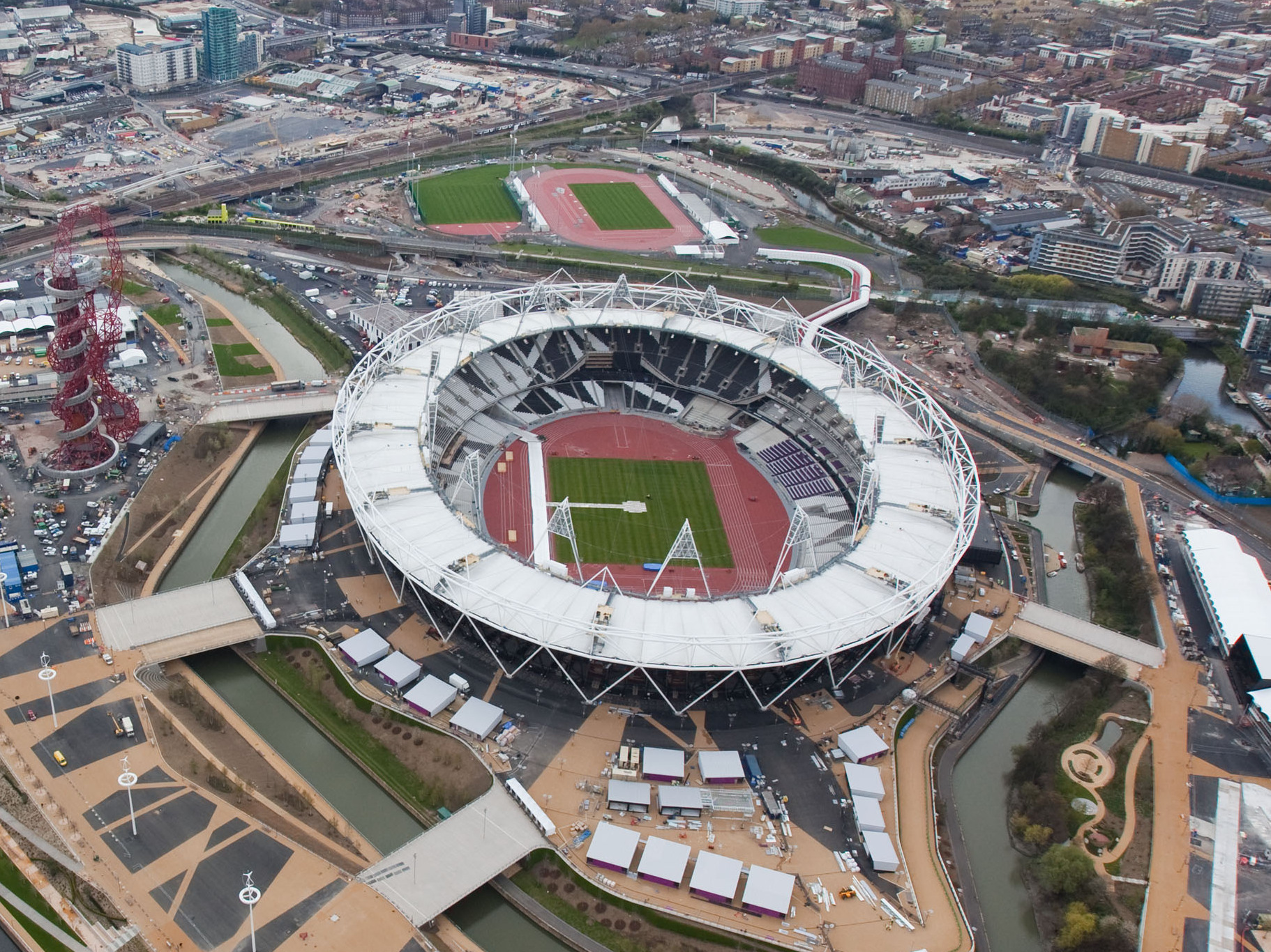 Aerial view of the Olympic Park looking south west towards London. Picture taken on 16 April 2012.